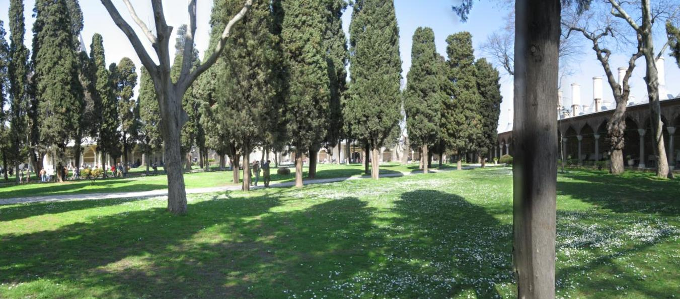 Second courtyard of Topkapı Palace.